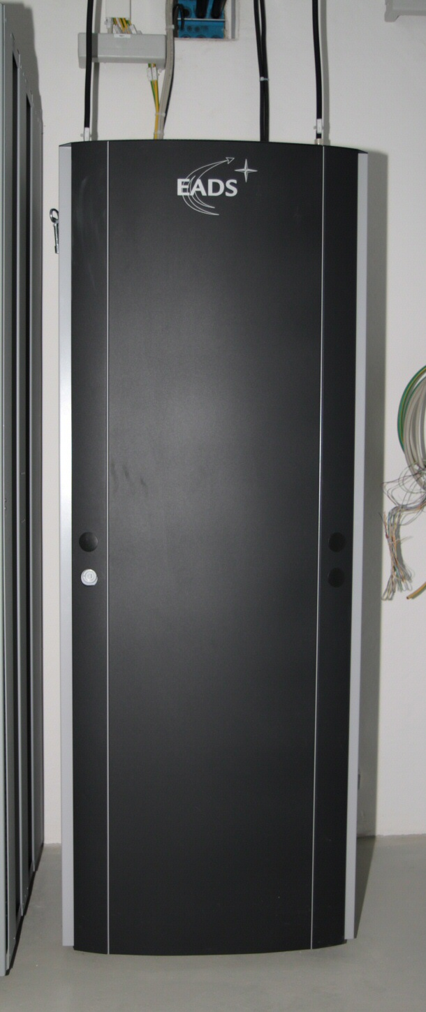 TETRA base station TB3 manufactured by EADS.